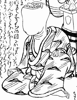 Noduchi from the Bakemono Shiuchi Hyōban-ki